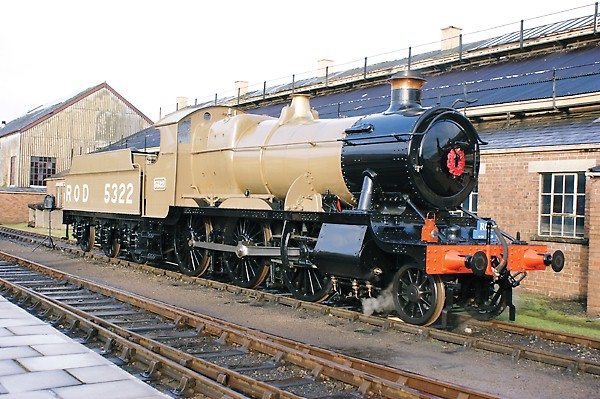 GWR Churchward "43XX" 2-6-0 No.5322 in WWI ROD (Railway Operating Division) khaki livery as carried when in service in France WWI (although the copper cap chmney and brass safety valve cover would surely have been painted over?). At Didcot shed, Armistice Day, 11/08.